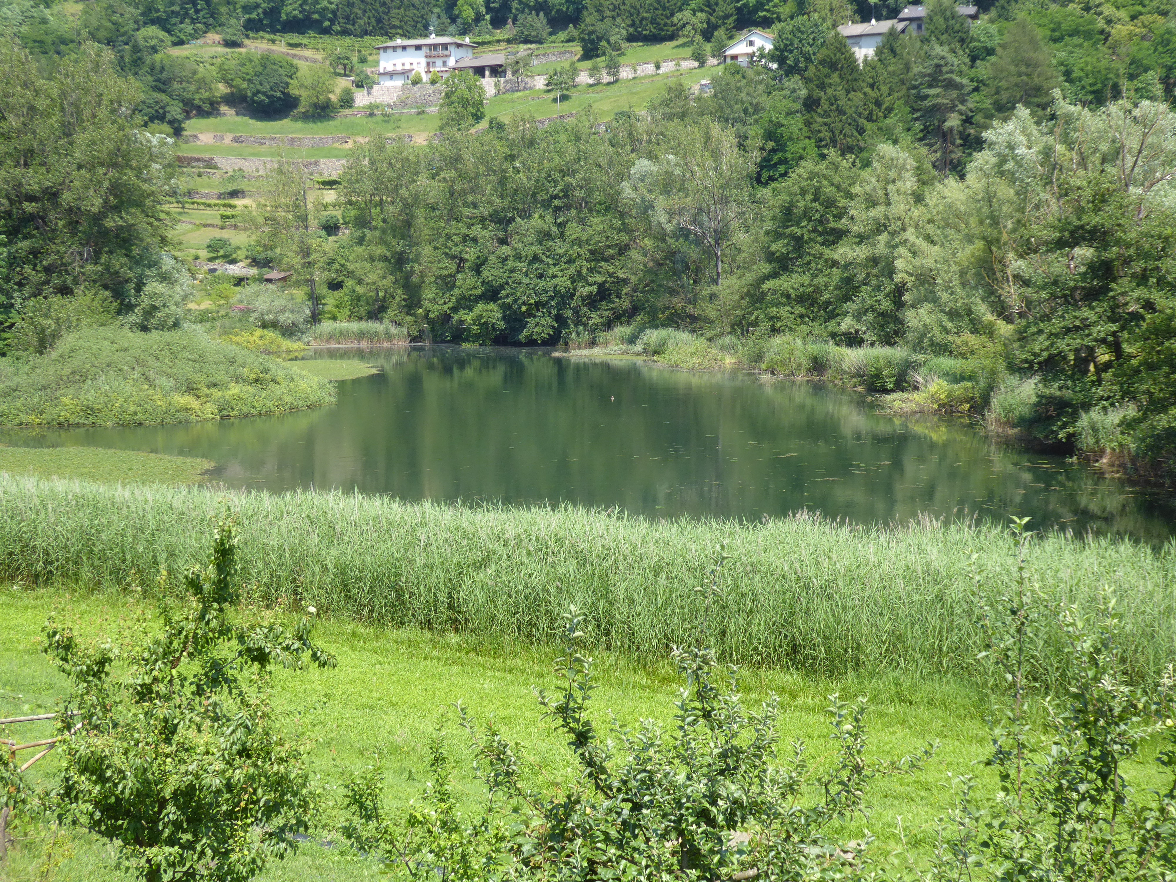 The Lake of Costa in the municipality of Pergine Valsugana (Trentino, Italy)